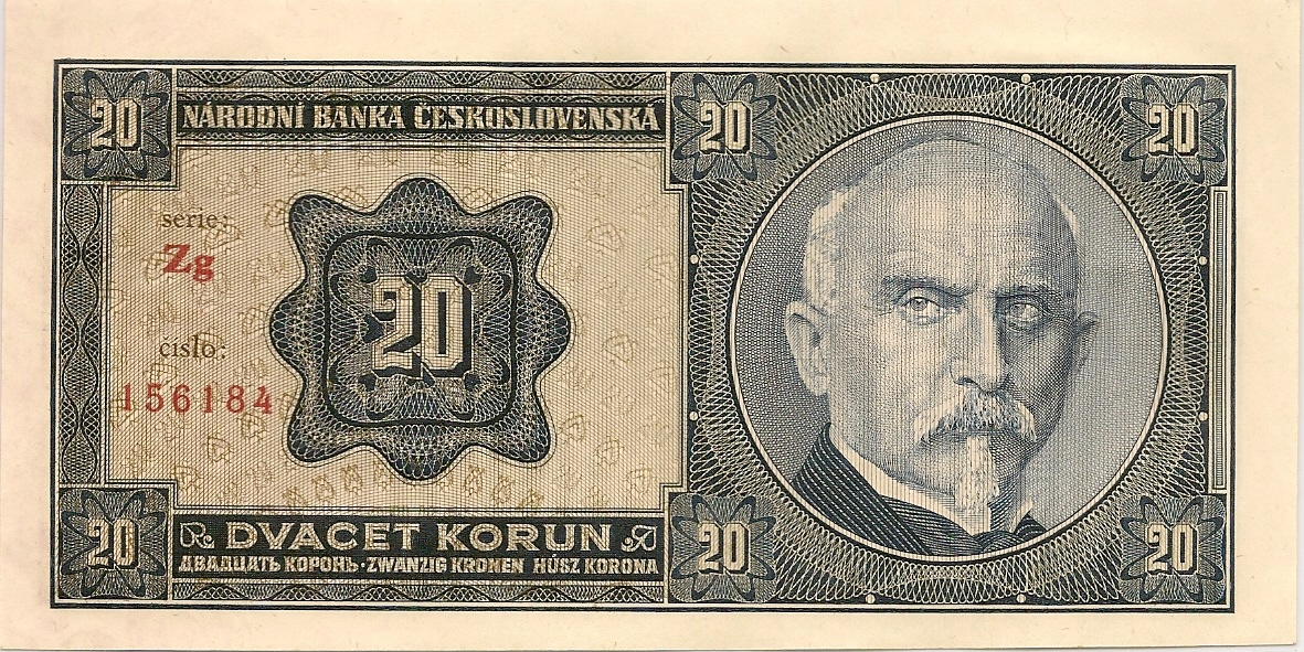 This image is the reverse of a 1926 20 Korun note (P-21) designed by Alois Mudruňka (1888-1956) and issued by the Czechoslovak National Bank.